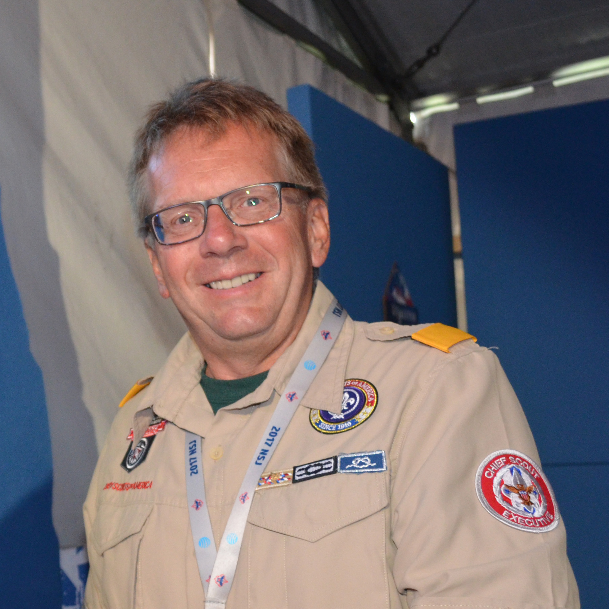 Mike Surbaugh at the NESA tent at the 2017 Boy Scout National Jamboree.